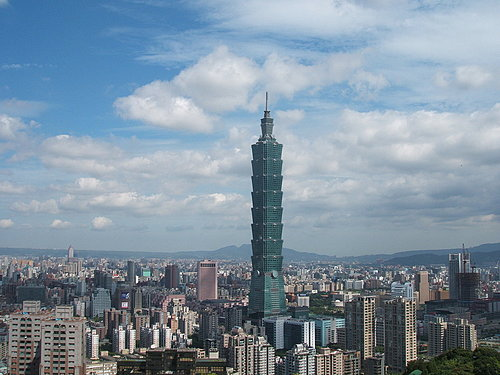 Picture by:trcheng(Taiwanese) Welcome to this beautiful city:Taipei! My BLOG about Taiwan